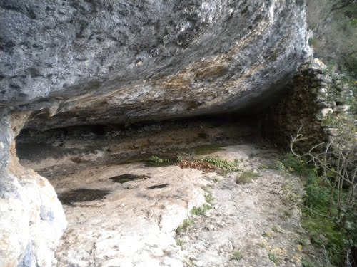 Cova d'en Panís